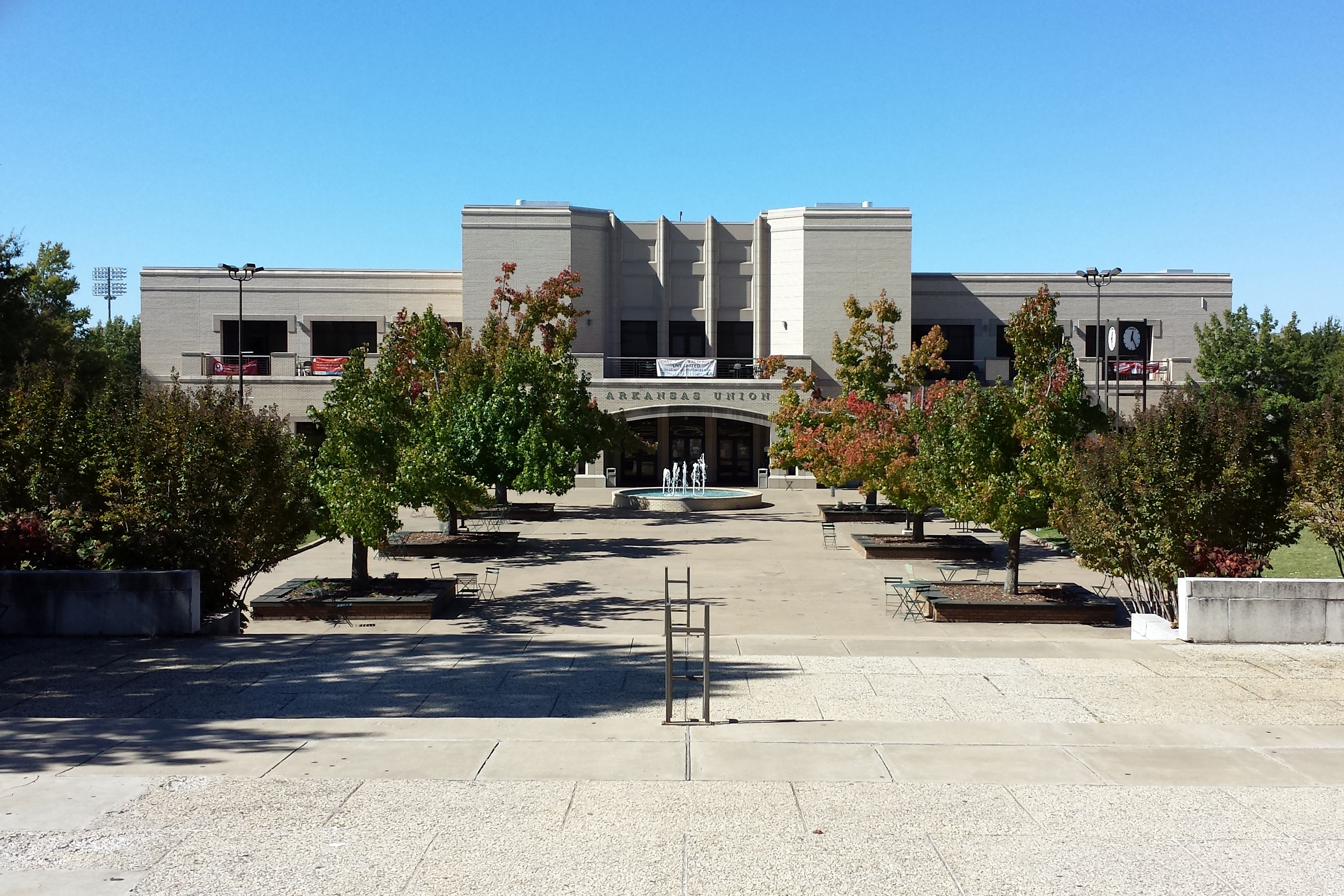 The Arkansas Union on the University of Arkansas campus days before fall colors break out on the campus